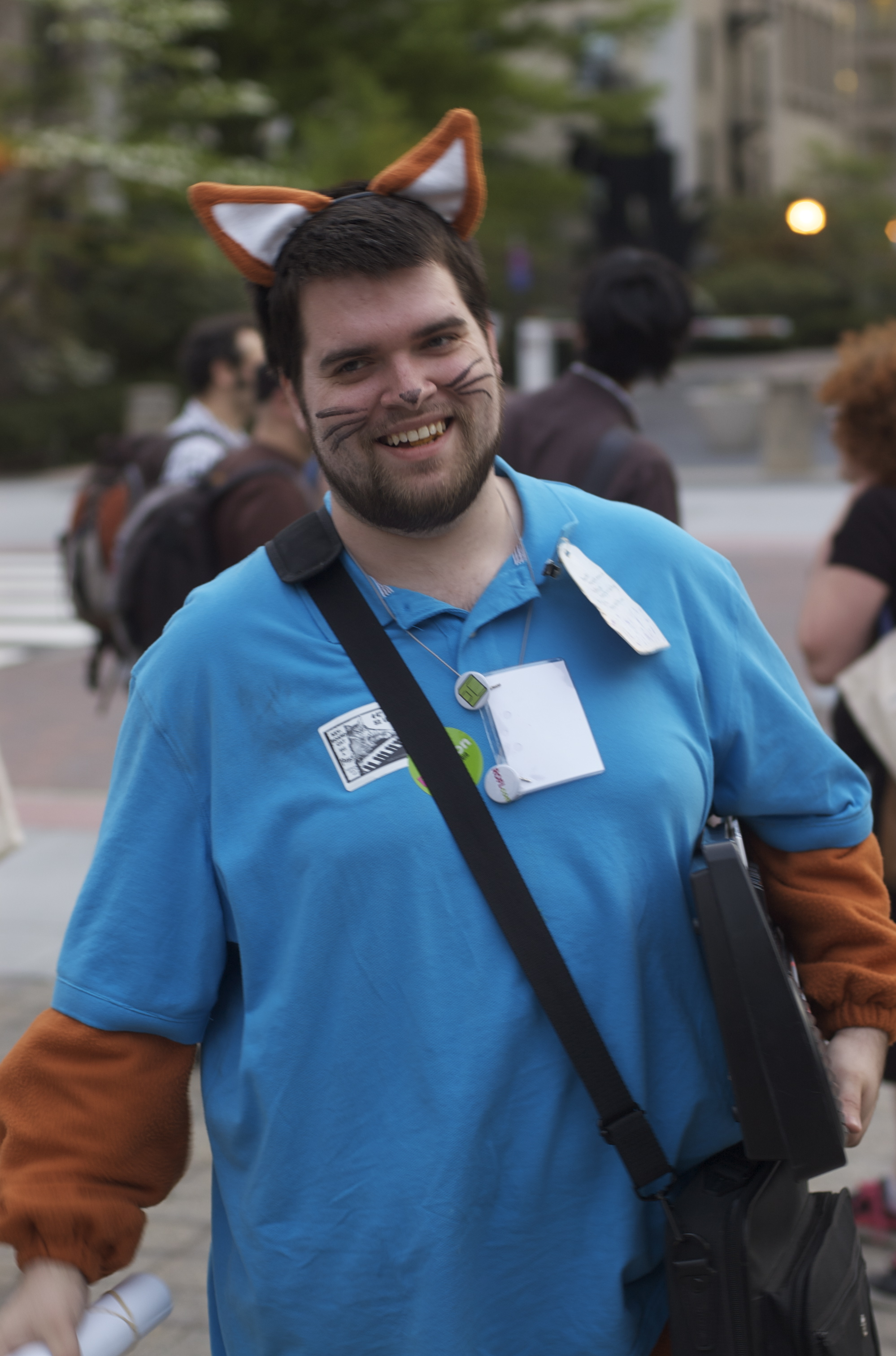 Brad O'Farrell, who popularized the Keyboard Cat meme on YouTube. Photo from ROFLcon II.